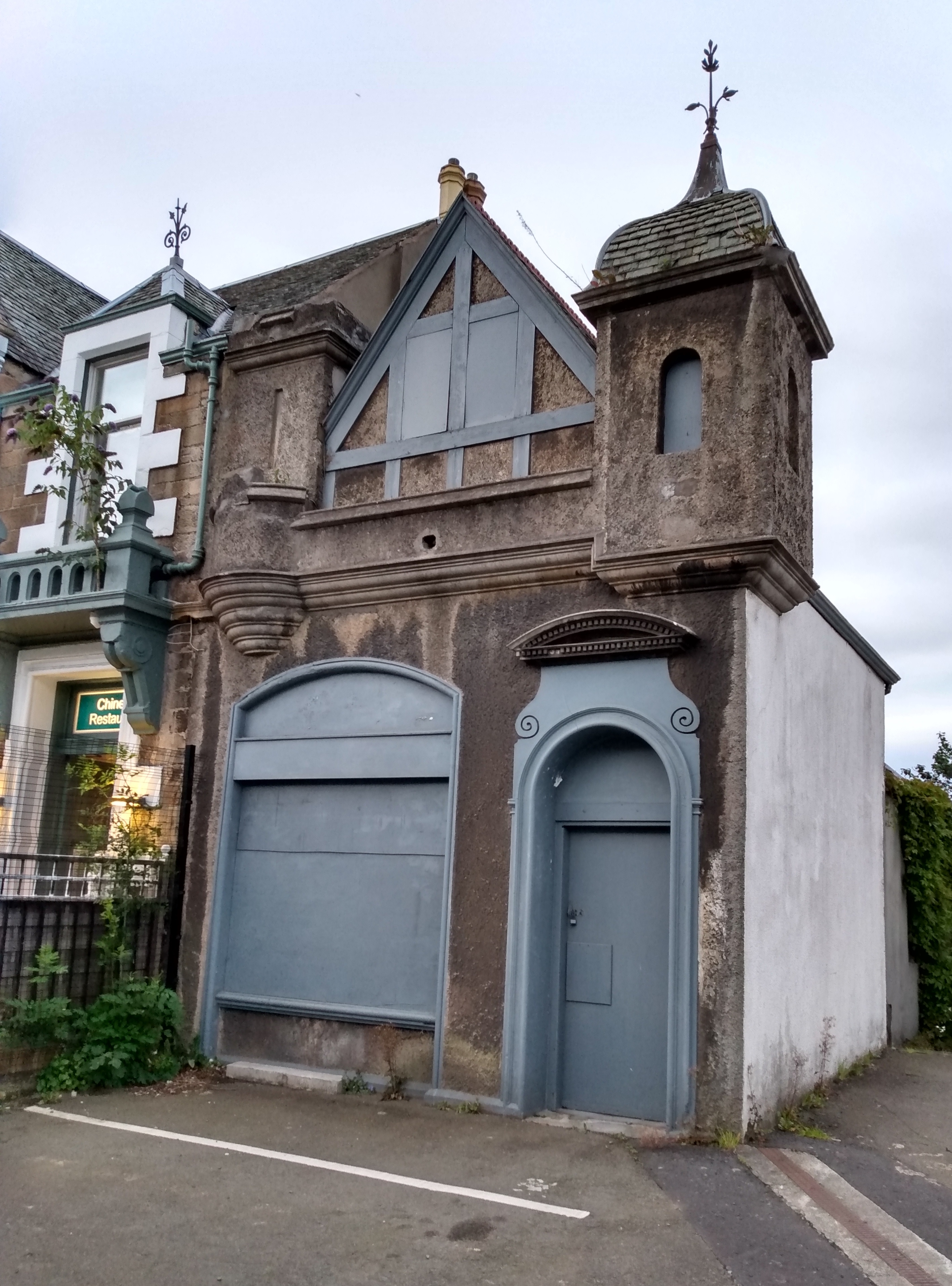 A photograph of 5 Downie Terrace, a late-19th century former coach house in Corstorphine, Edinburgh, Scotland.